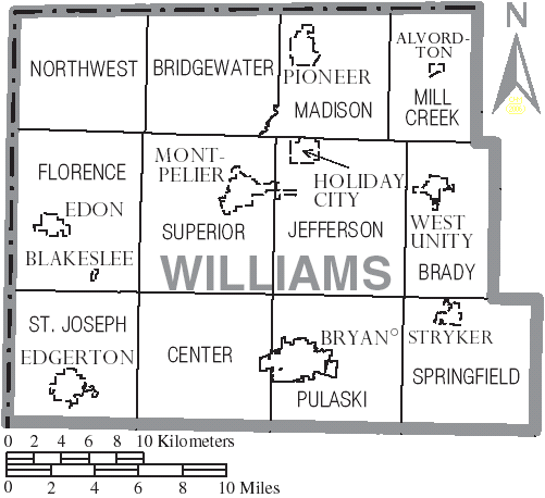 Map of Williams County, Ohio, United States with township and municipal boundaries